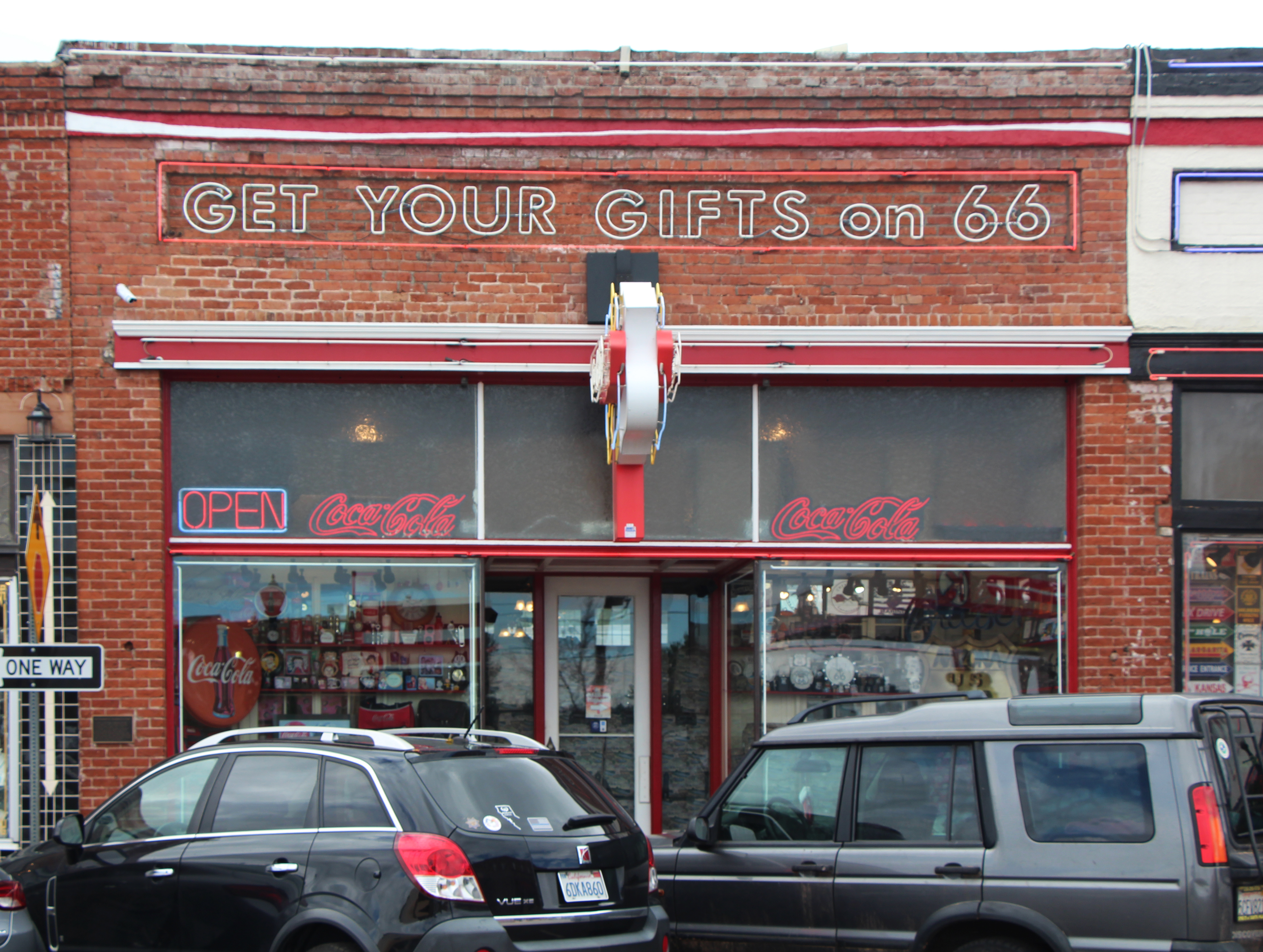 Rittenhouse Haberdashery, 225 W. Route 66, Williams, AZ